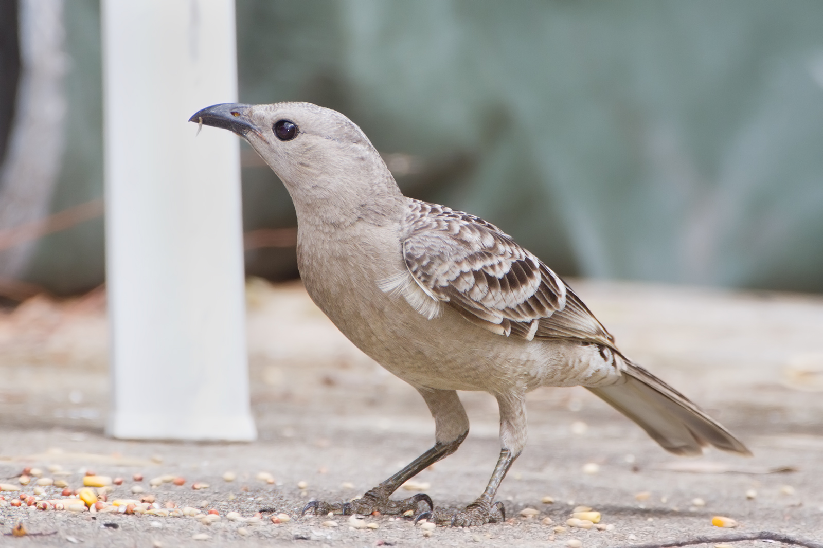 Great Bowerbird (Chlamydera nuchalis), Mount Carbine, Queensland, Australia